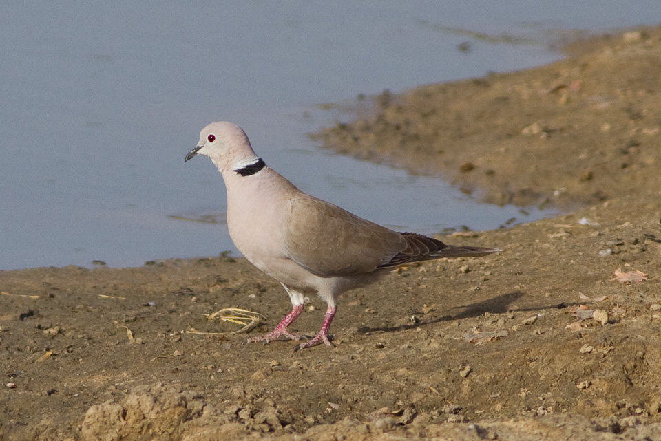 African Collared Dove Streptopelia roseogrisea, Waza National Park, Cameroon.